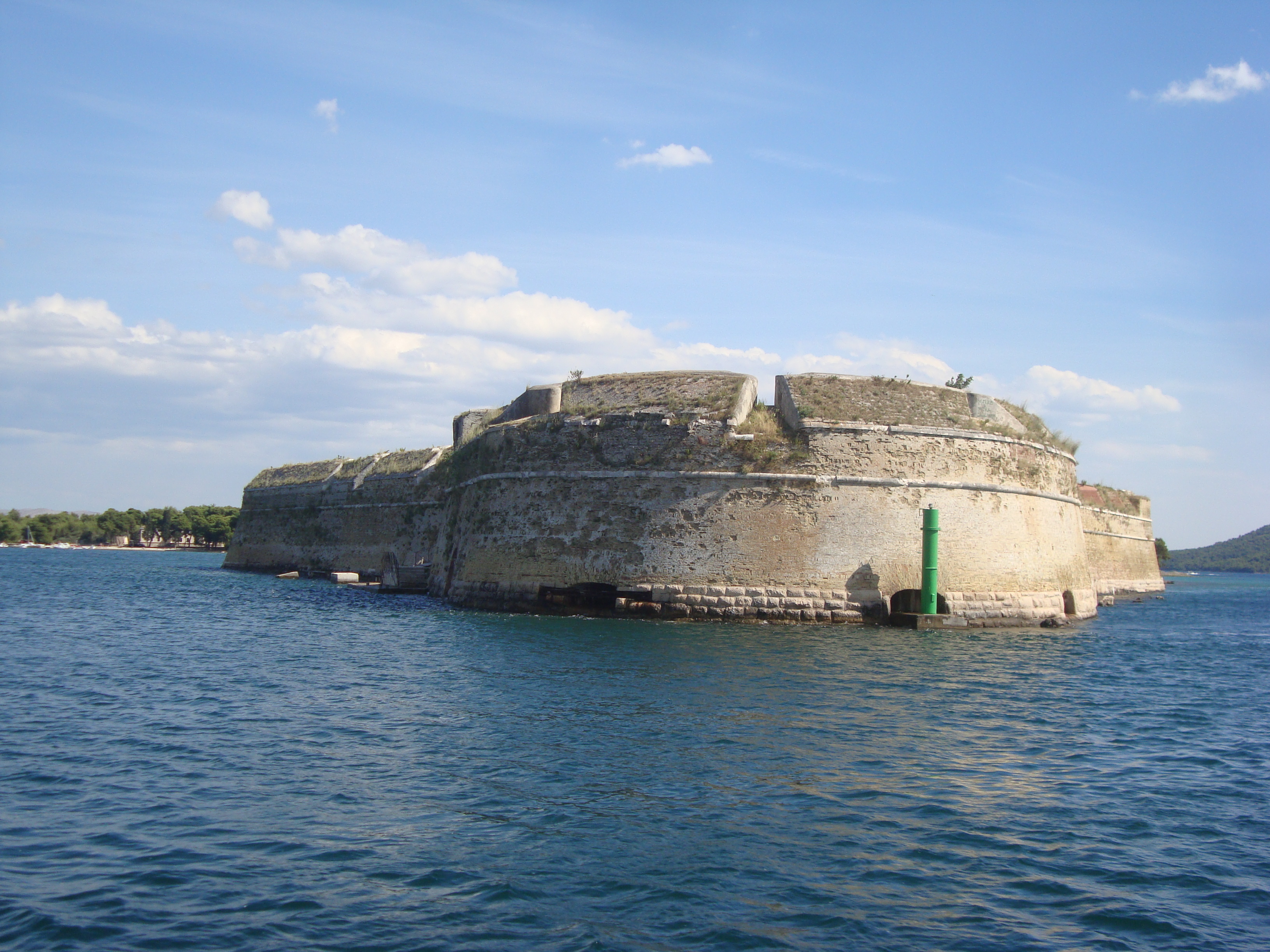 Saint-Nicholas Fortress in Šibenik